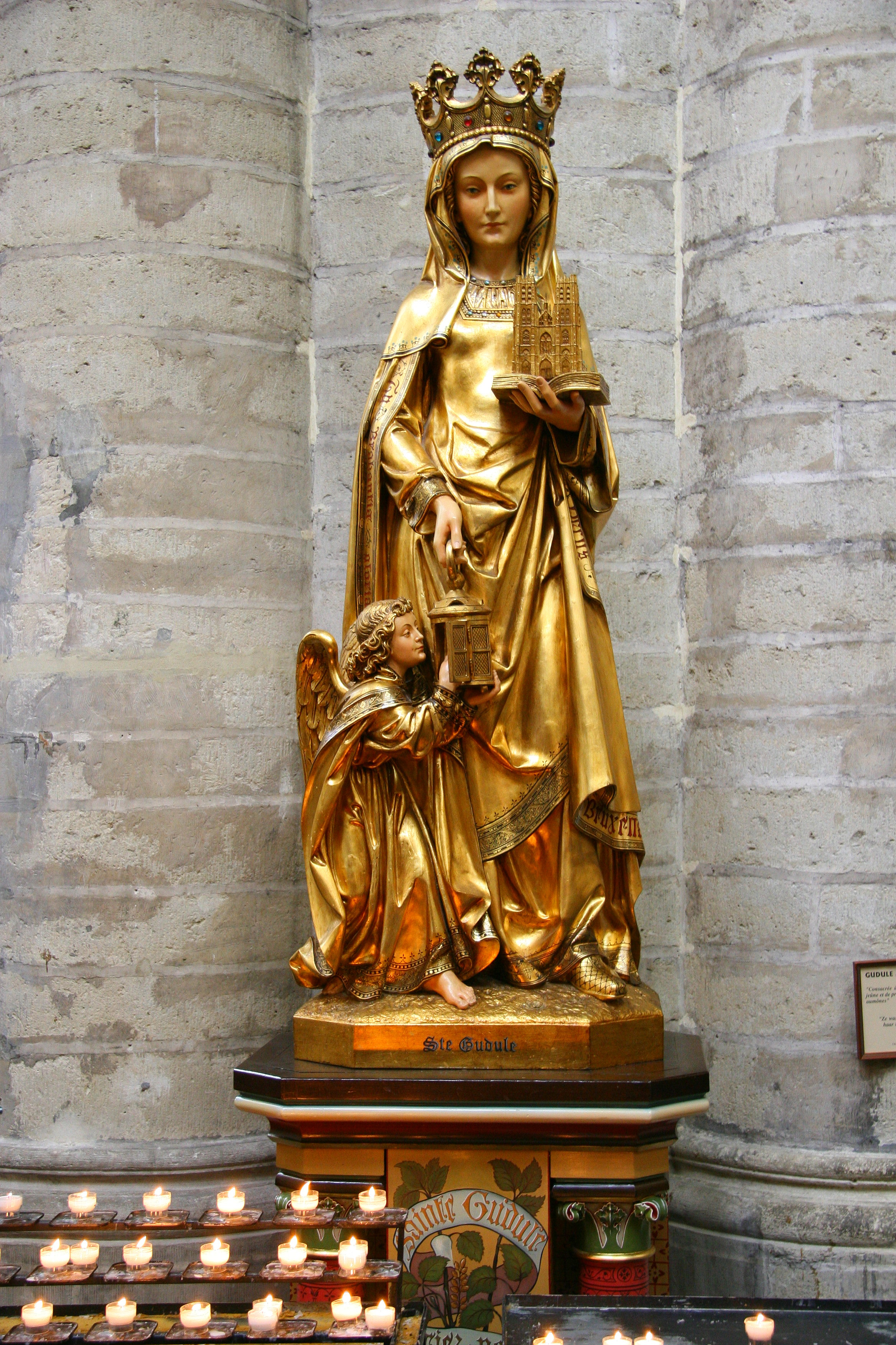 Statue of St. Gudula in the nave of the St. Michael and Gudula cathedral in Brussels. Work of M. de Beule (1912)